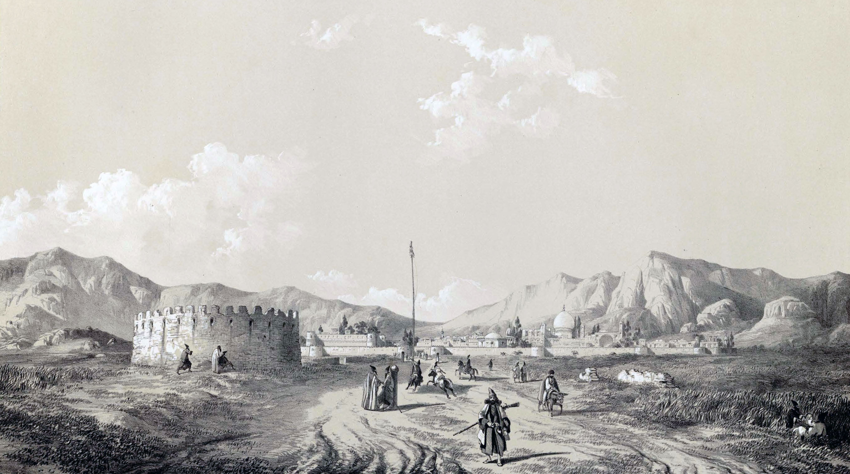 Mamasanis tower